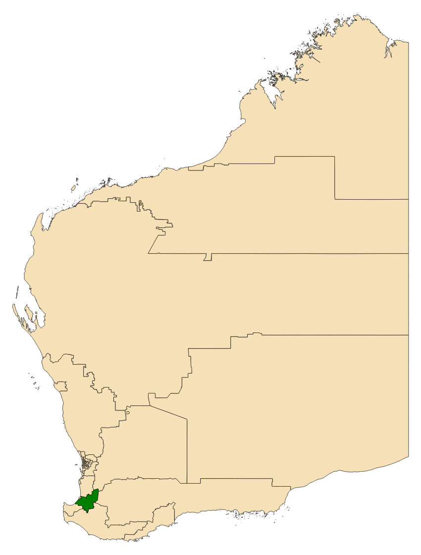 Location of the electoral district of Collie-Preston in Western Australia as of the 2017 WA state election.